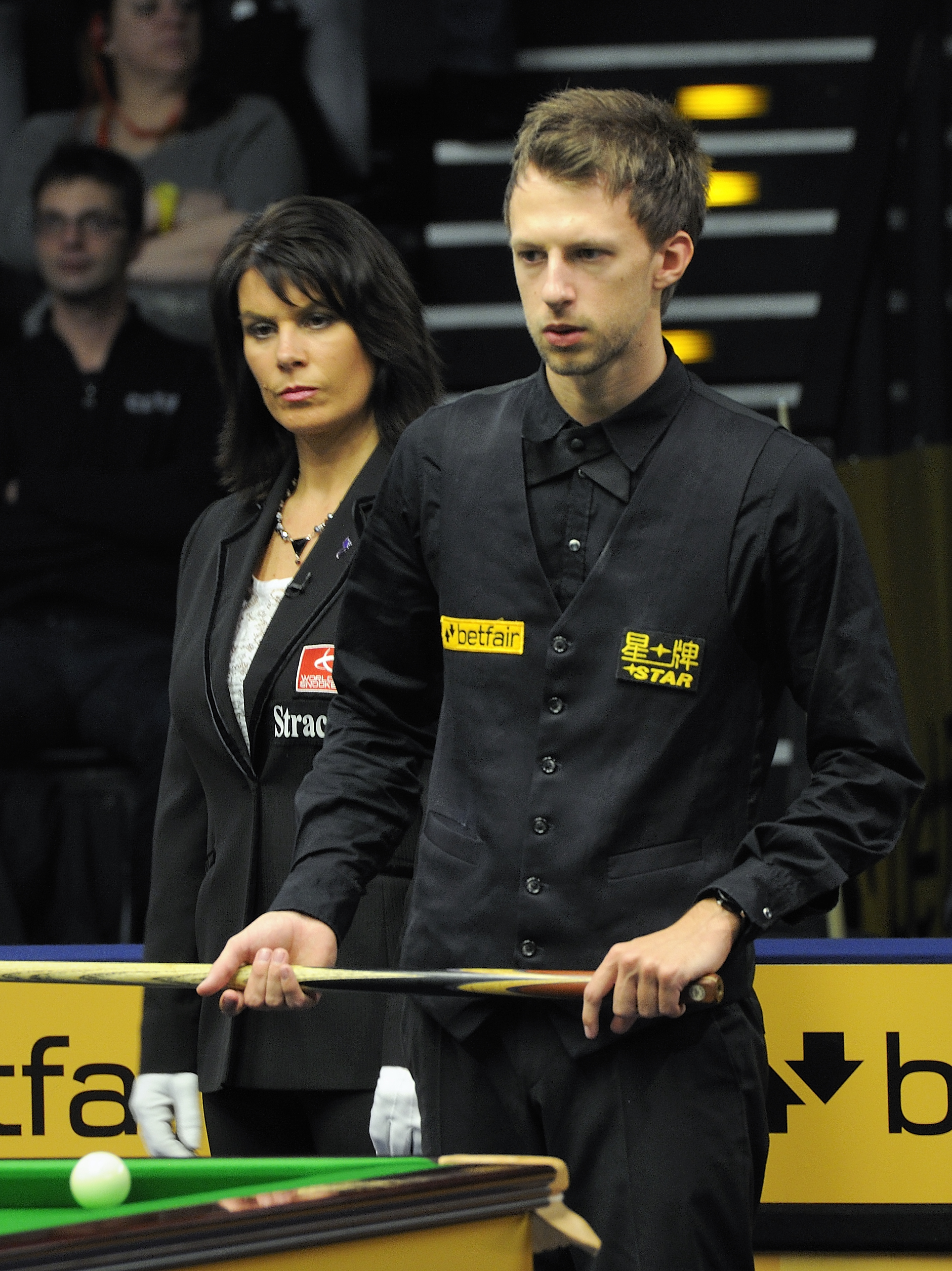 Picture taken in Berlin during the Snooker German Masters in 2013. Judd Trump, Michaela Tabb.